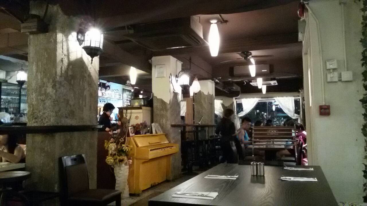 interior of upstairs cafes in hong kong